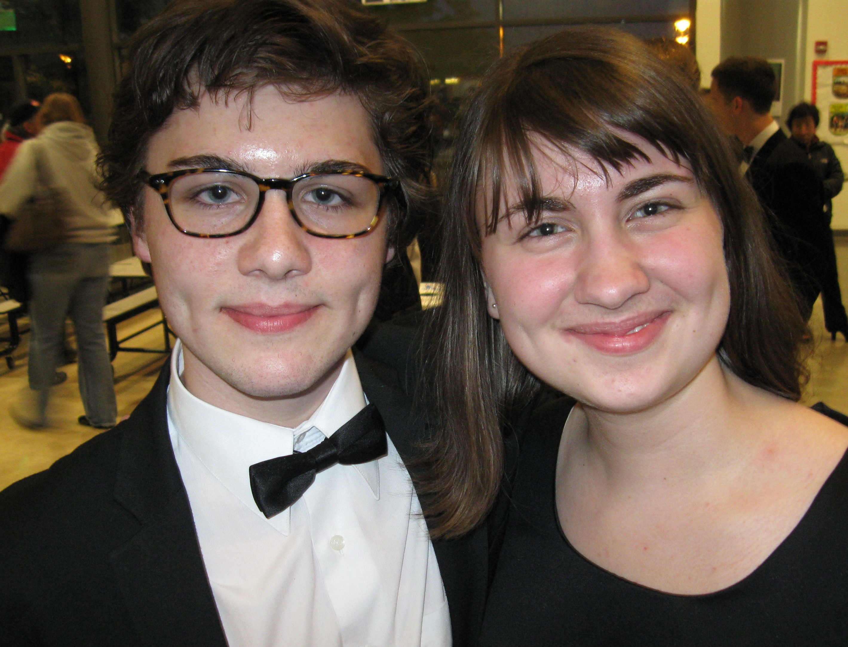 A couple, both with dimples